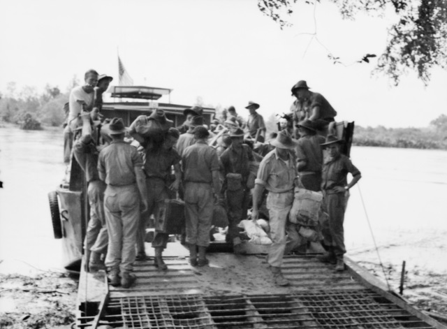 Troops from the Australian 2/15th Infantry Battalion land at Limbang, Borneo, August 1945